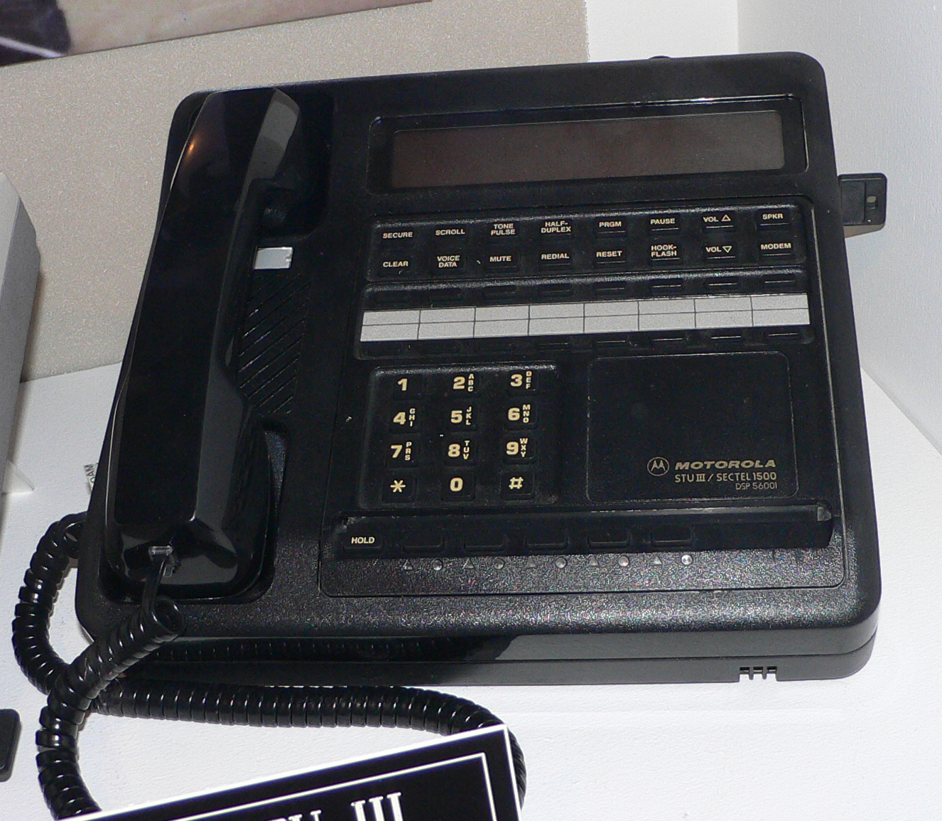 Pictures taken by myself at the US National Cryptologic Museum.